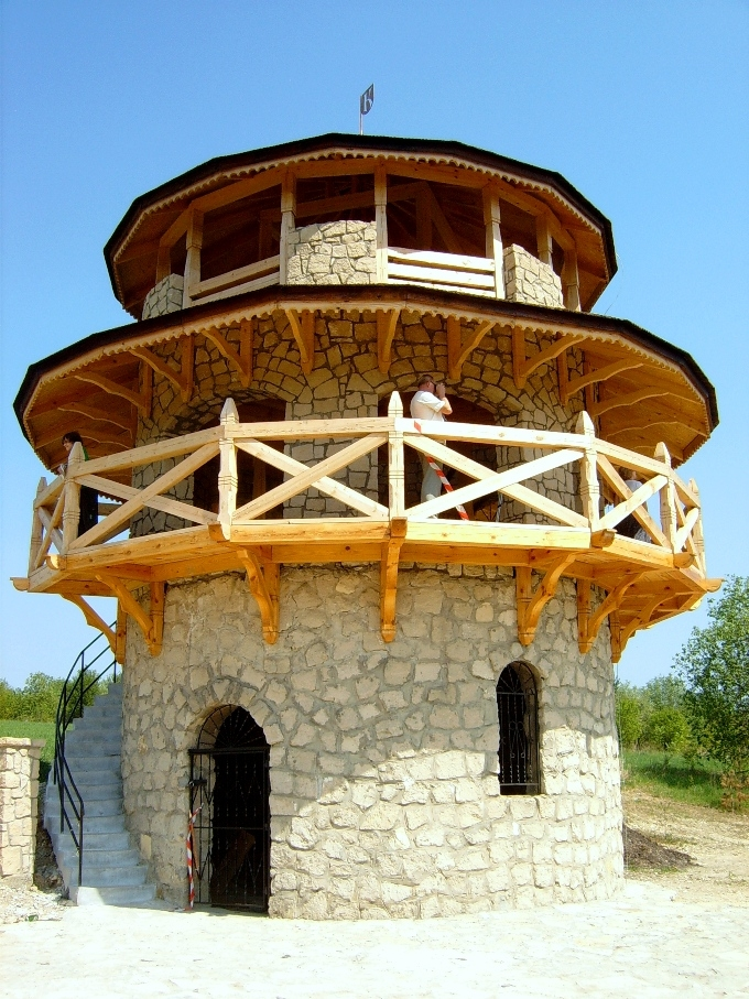 Observation tower near the quarry in Krasnobród town